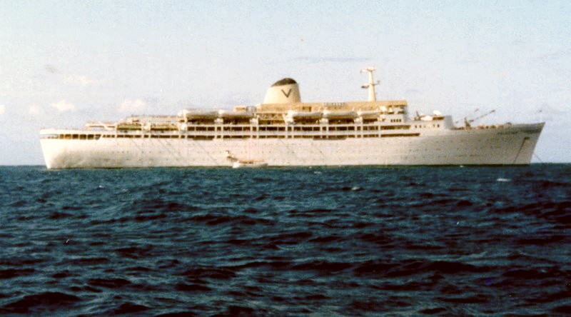 A photo of the TSS Fairstar by Michael Ristuccia